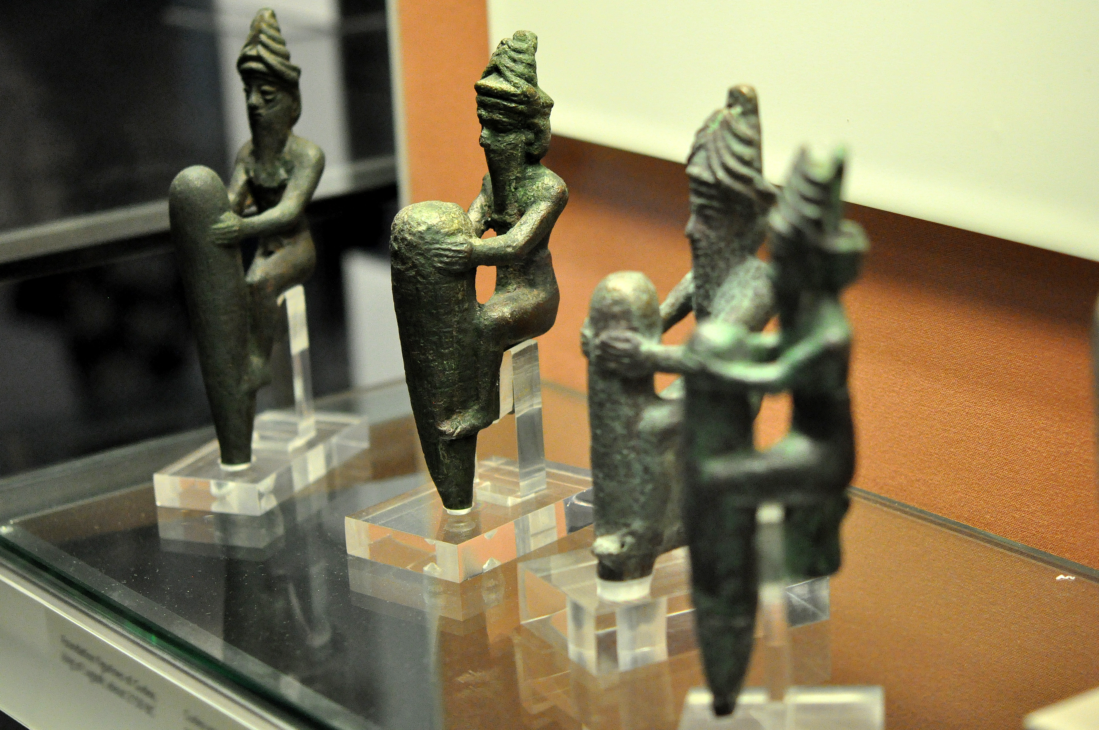 Foundation figurines representing gods. Copper alloy. Reign of Gudea, c. 2150 BCE. From the temple of Ningirsu at Girsu, Southern Mesopotamia,modern-day Iraq. The British Museum, London